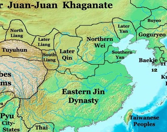 China in 400 AD This is a retouched picture, which means that it has been digitally altered from its original version. Modifications: Cropped to cover China only. The original can be viewed here: SE Asia 400ad.jpg. Modifications made by Tappinen.